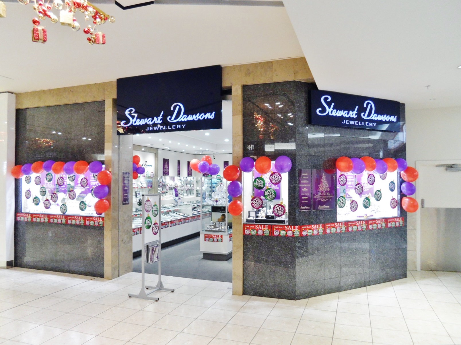 New Zealand retail jeweller Stewart Dawsons Hamilton store at Westfield Chartwell in Hamilton, New Zealand in 2013.